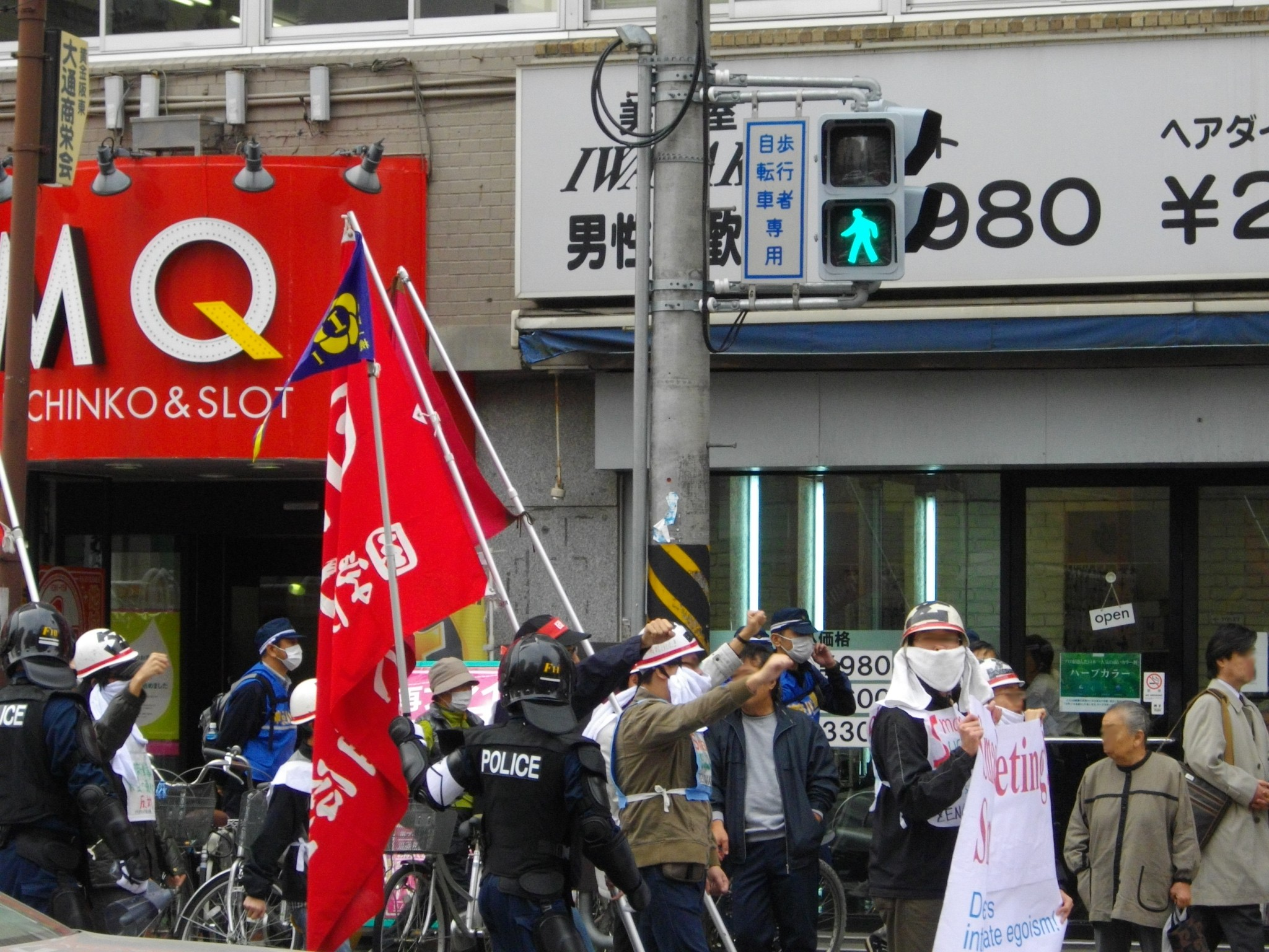 Anti-APEC rally by Kakumaru-ha(Revolutionary Marxist Faction, It is a Japanese ultra-left organization.)